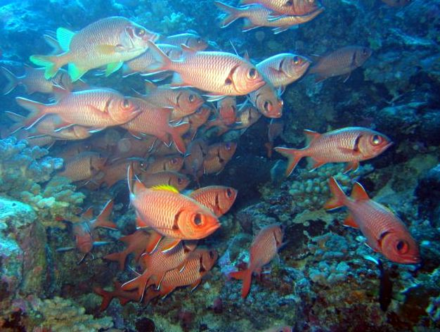 Holocentridae - Myripristis berndti. Polynesia